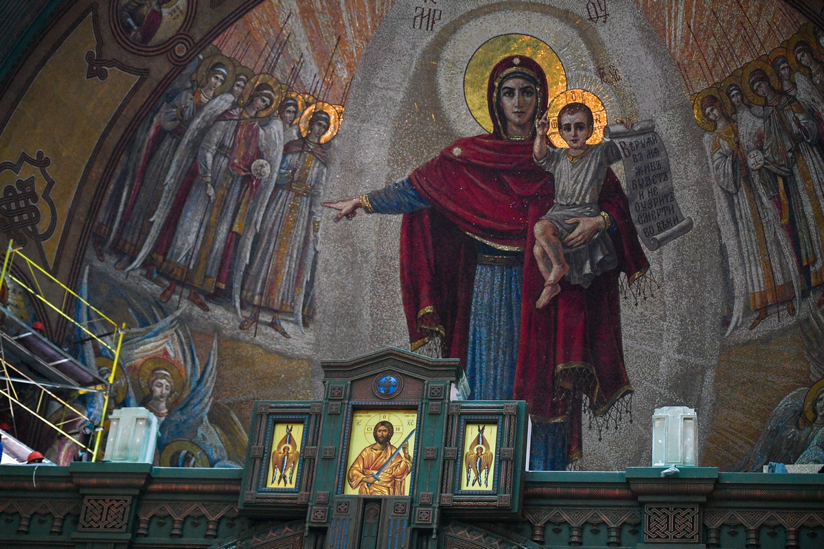 Cathedral of the Resurrection of Christ (Main Cathedral of the Russian Armed Forces).